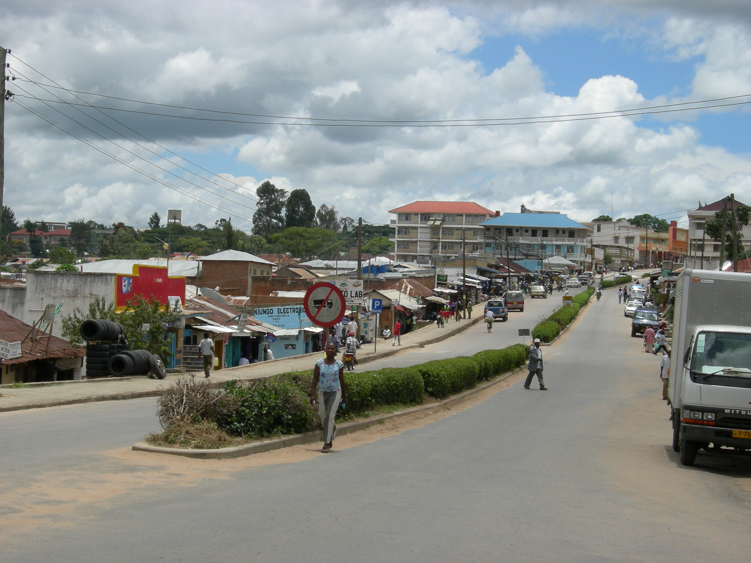 A road in Iringa, Tanzania